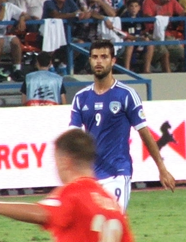 Israel vs.Russia 09.11.2012